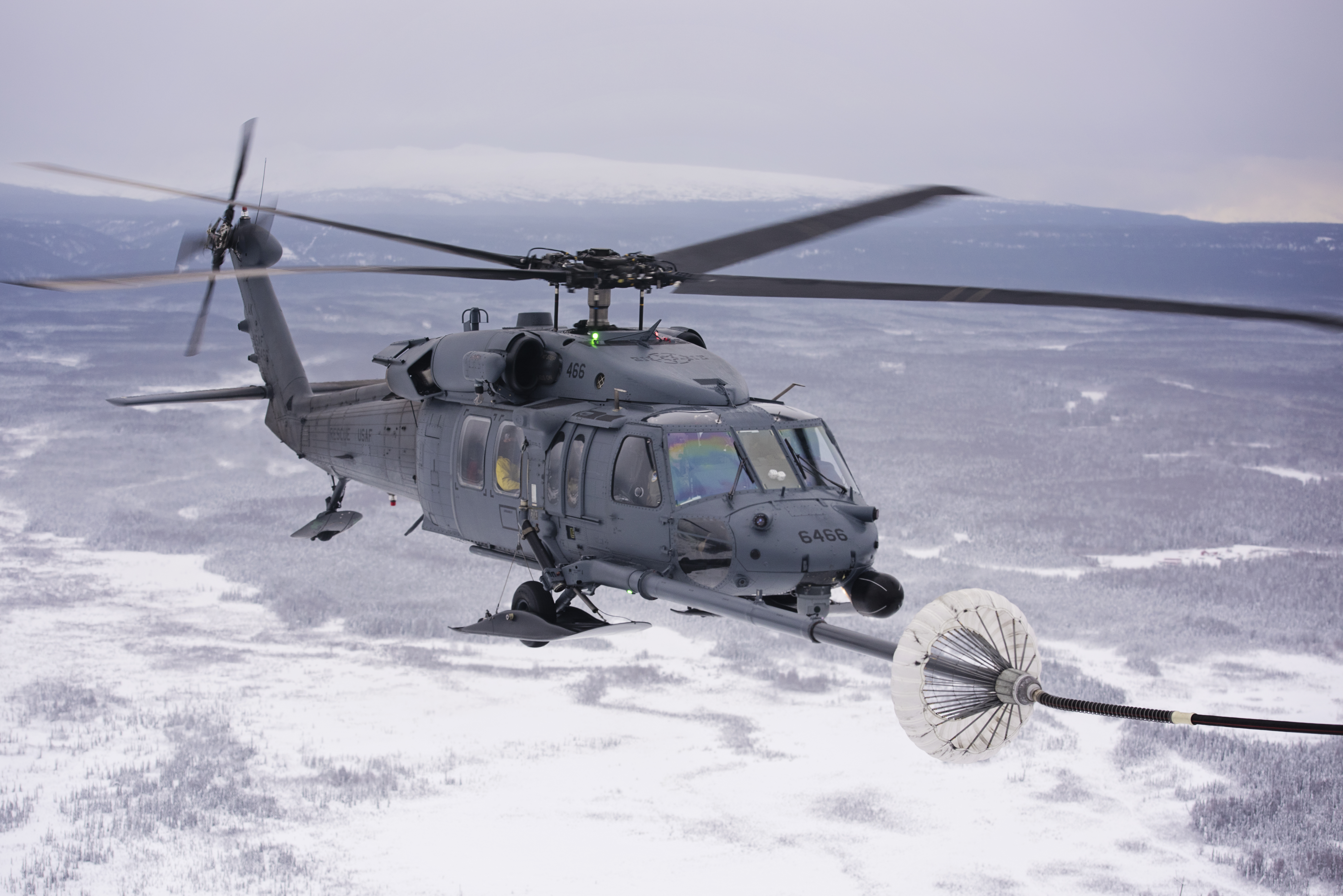 JOINT BASE ELMENDORF-RICHARDSON, Alaska — Col. Harlie Bodine, commander of the 611th Air and Space Operations Center, U.S. Air Force, spent the day with the 176th Wing, Alaska Air National Guard’s rescue squadrons during an immersion flight, Nov. 24, in and around the JBER area. The purpose of the immersion flight was to provide Bodine the opportunity to have first-hand experience with the missions and capabilities of the 210th, 211th and 212th Rescue Squadrons, which are often tasked by the Alaska Rescue Coordination Center to execute search and rescue missions across Alaska as part of their civil search and rescue commitment. The day’s demonstrations included an air refueling mission in which an HH-60G Pave Hawk helicopter was refueled by an HC-130 King aircraft, as well as a hoist extraction demo from a Pave Hawk.